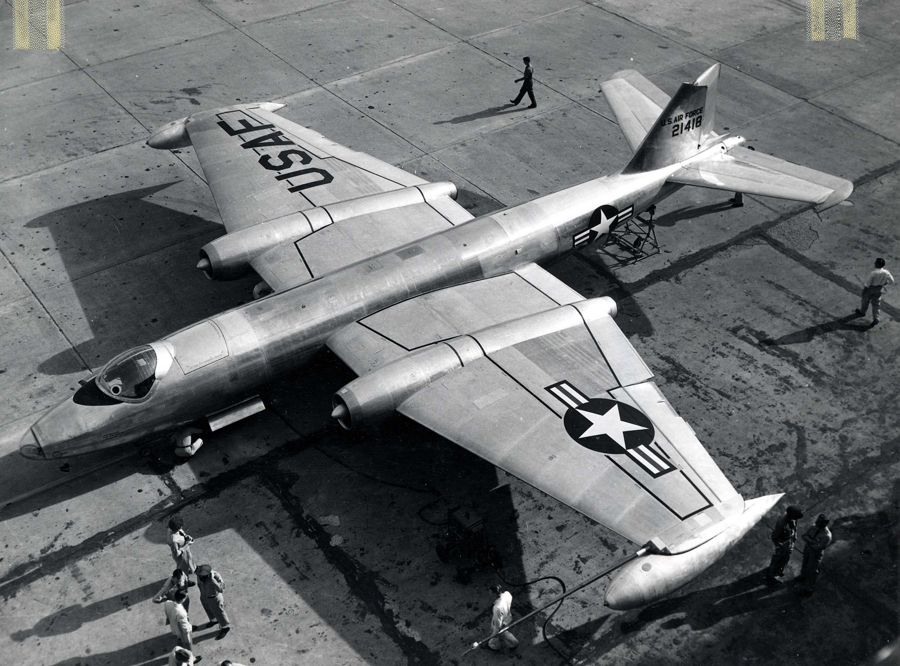 Martin B-57A Canberra 3/4 front top view (S/N 52-1418).